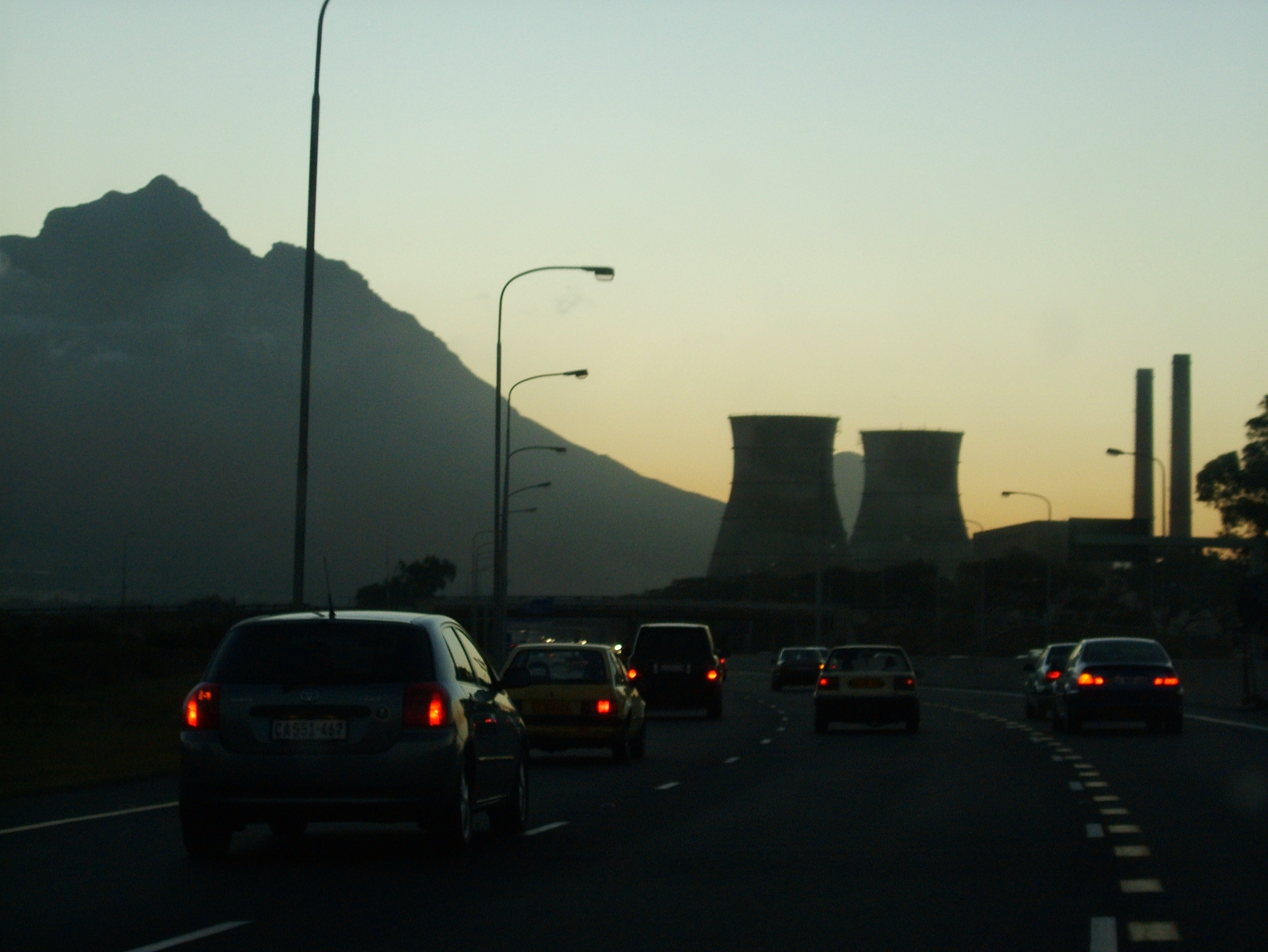 Athlone Power Station seen from the East from the N2 with Devil's Peak in the background. Cape Town, South Africa.